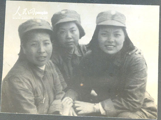 Female eight route soldiers. 從紅軍戰士到八路軍的女干部